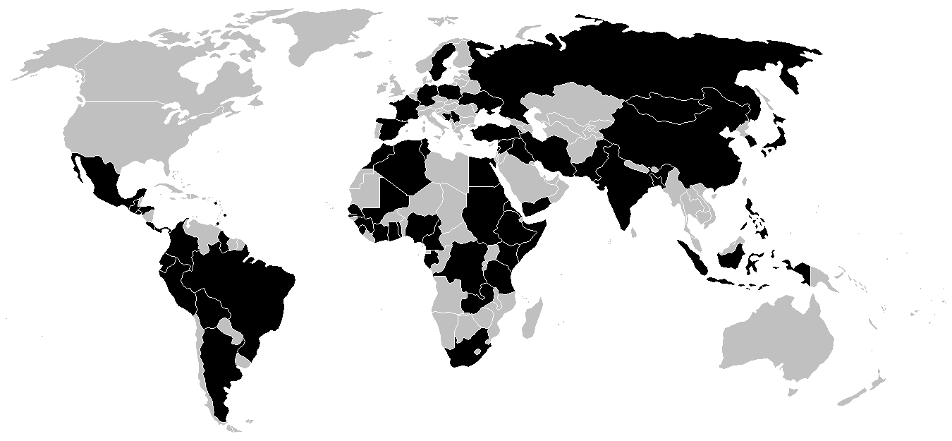 A map showing the origin nations of Tahirih Justice Center clients